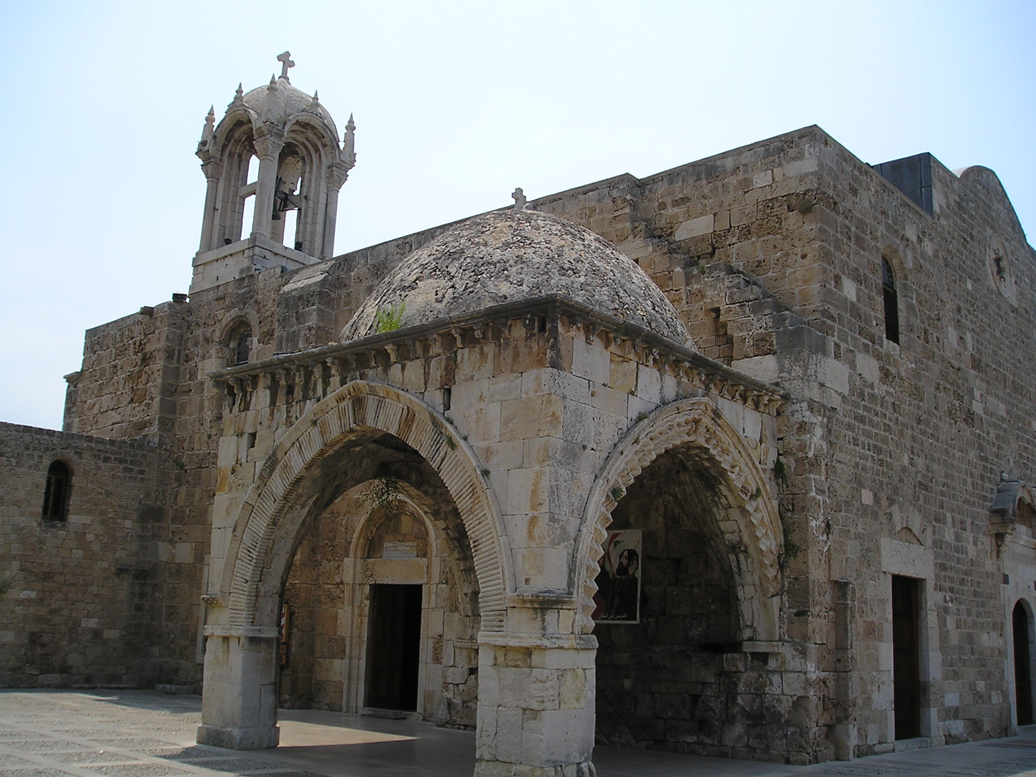 Byblos, Lebanon - church of St. Jean-Marc (ﻤﺎﺭ ﻴﻭﺤﻨﺎ ﻤﺭﻗﺱ) (See [1])